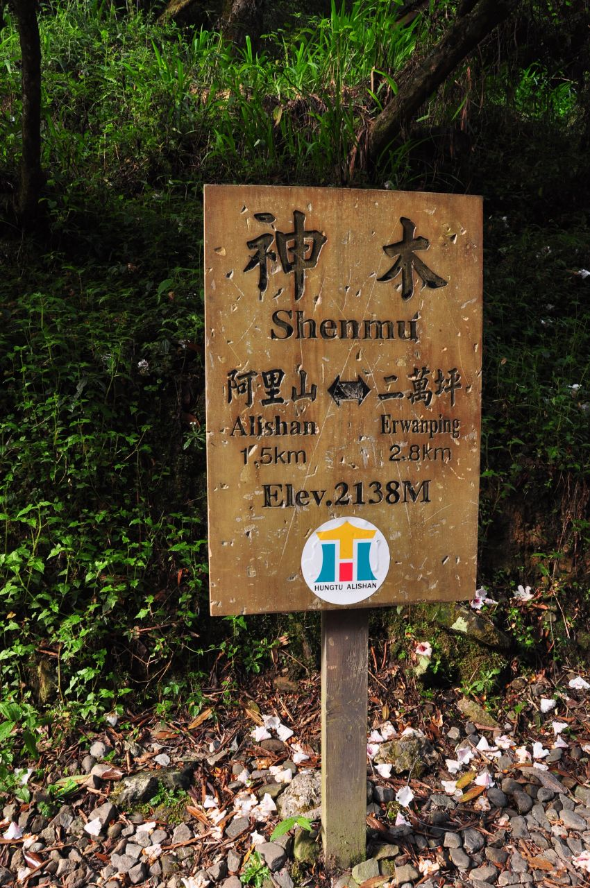 Alishan Forest Railway Shenmu Station